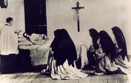 Death of Blessed Sister Mary of the Divine Heart Droste zu Vischering, Mother Superior of the Convent of the Good Shepherd Sisters in Porto (1899).